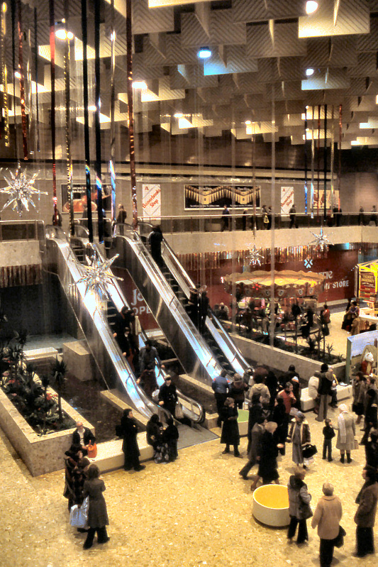 An interior photo of the Manchester Arndale two years after opening in 1977